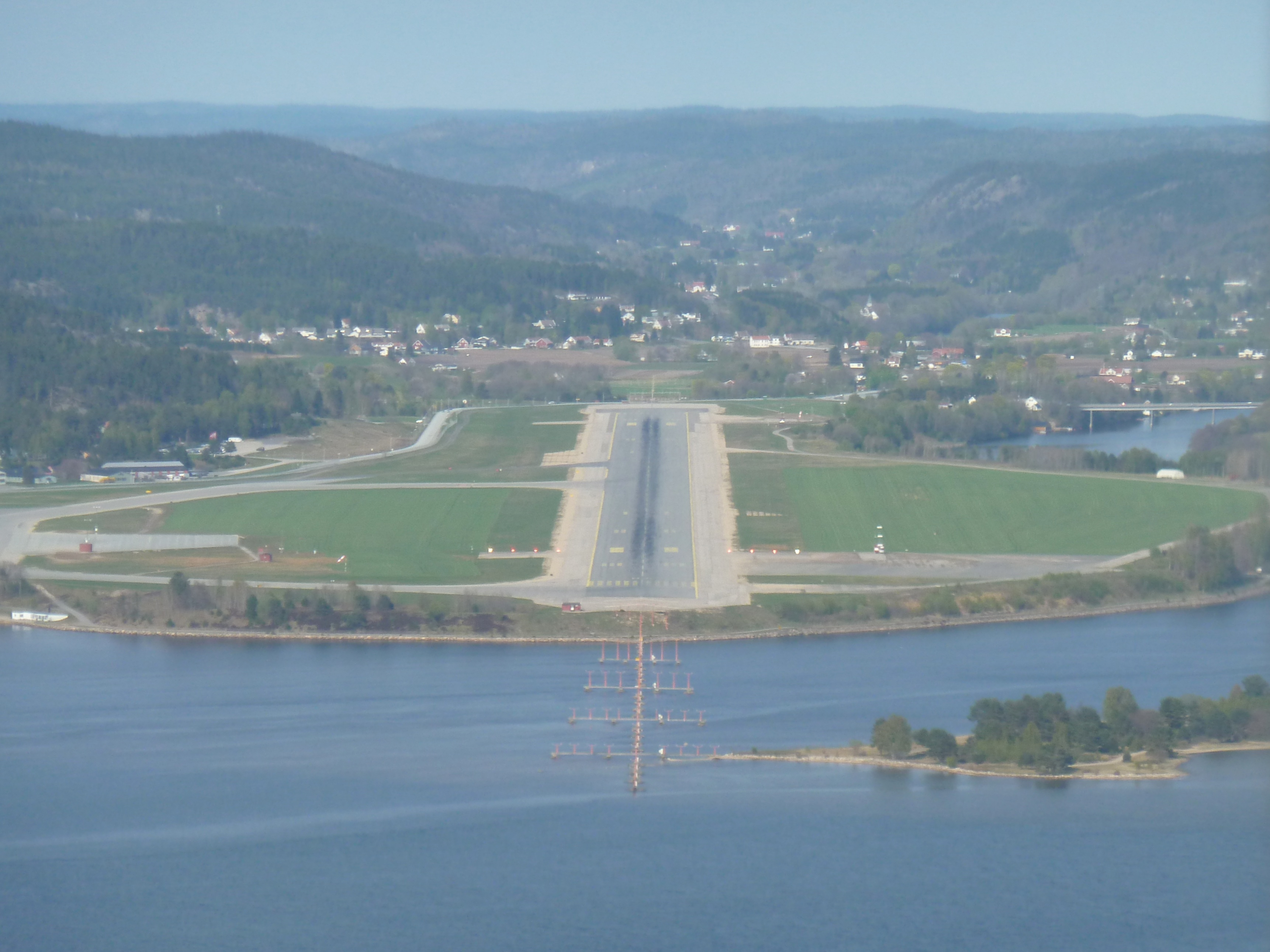 View on the runway of Kristiansand-Kjevik airport, approaching RWY 04